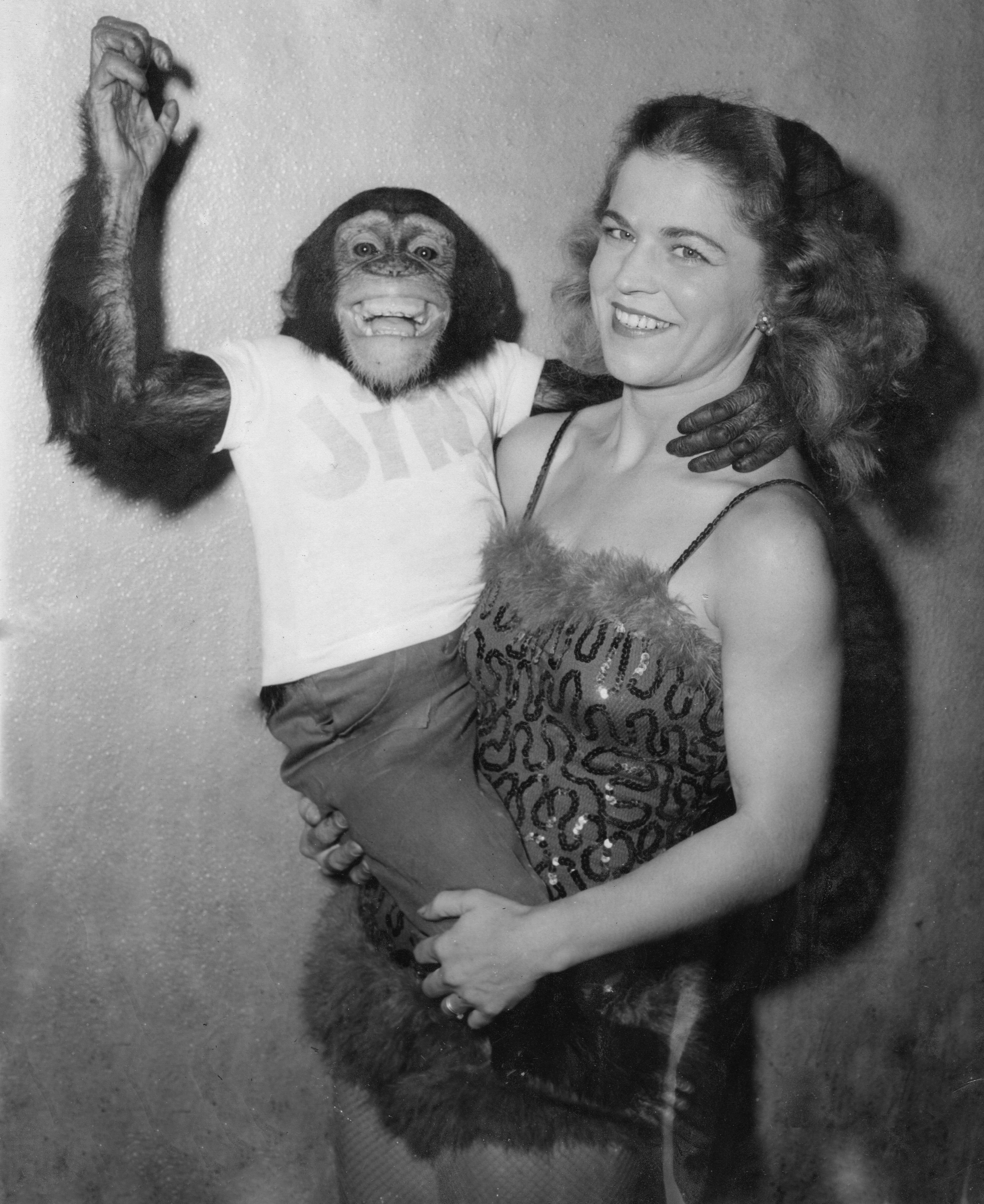 This photo is intended to be included in the cited article.